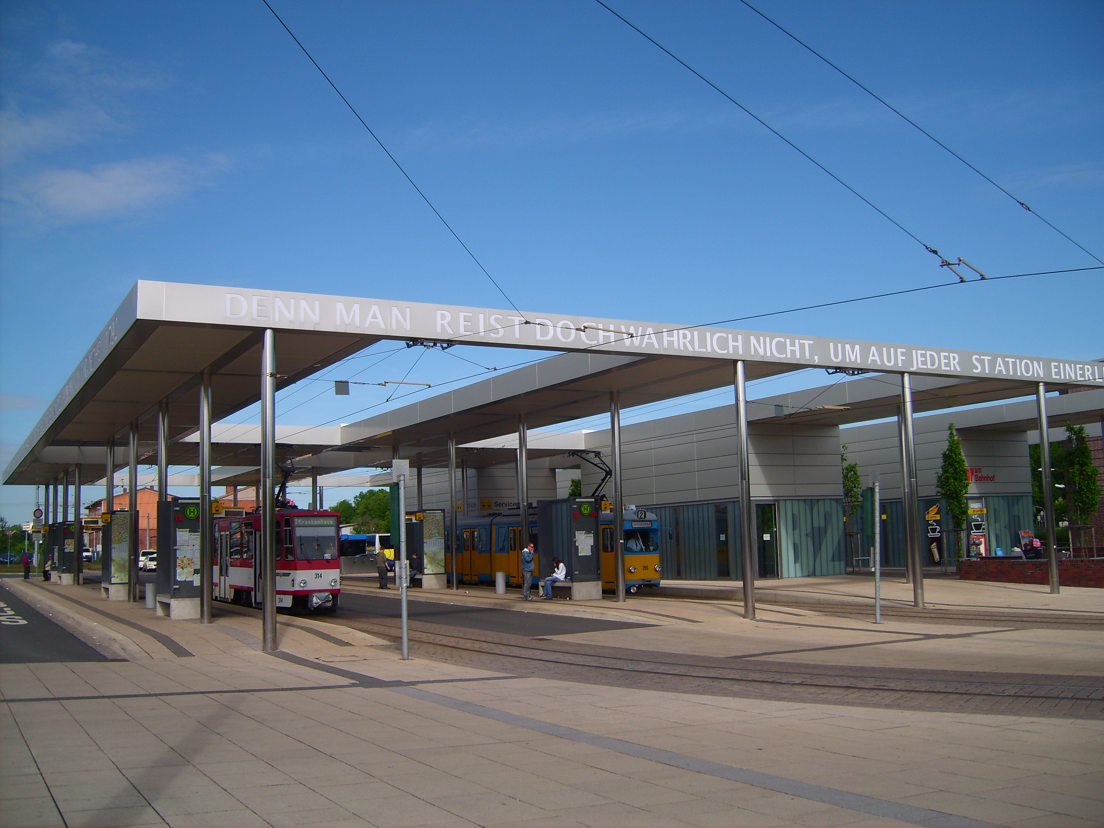 Central bus and tram station Gotha